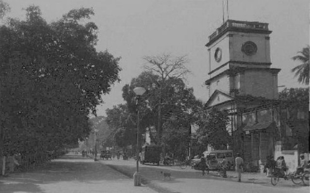 View of the main street of Chandernagore facing the Hugli river. Postcard from the 1930s or 1940s.